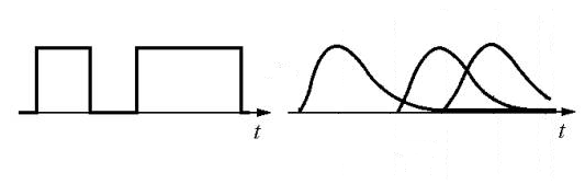 example of intersymbol interference